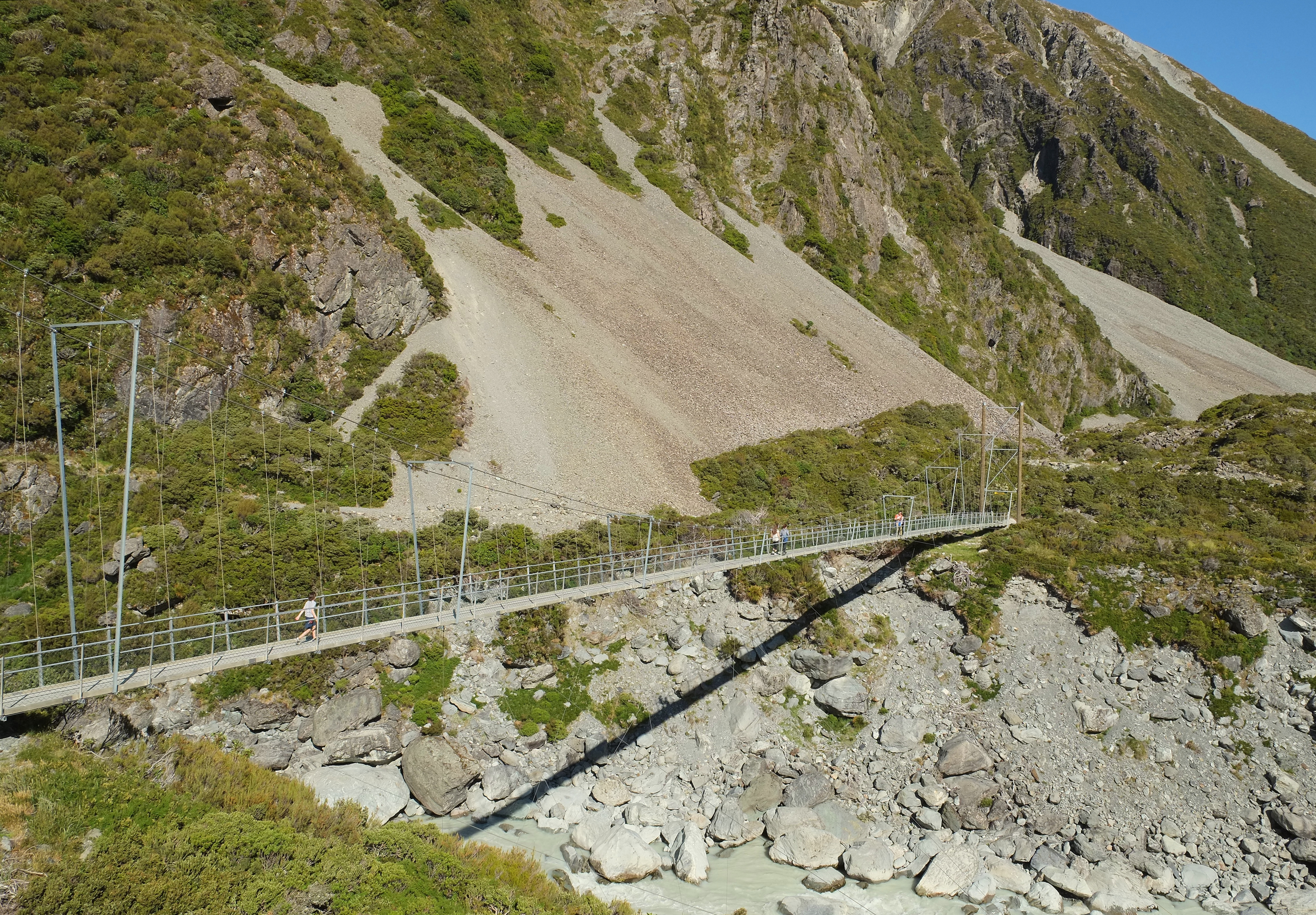 Footbridge over Hooker River just upstream of Mueller Glacier Lake